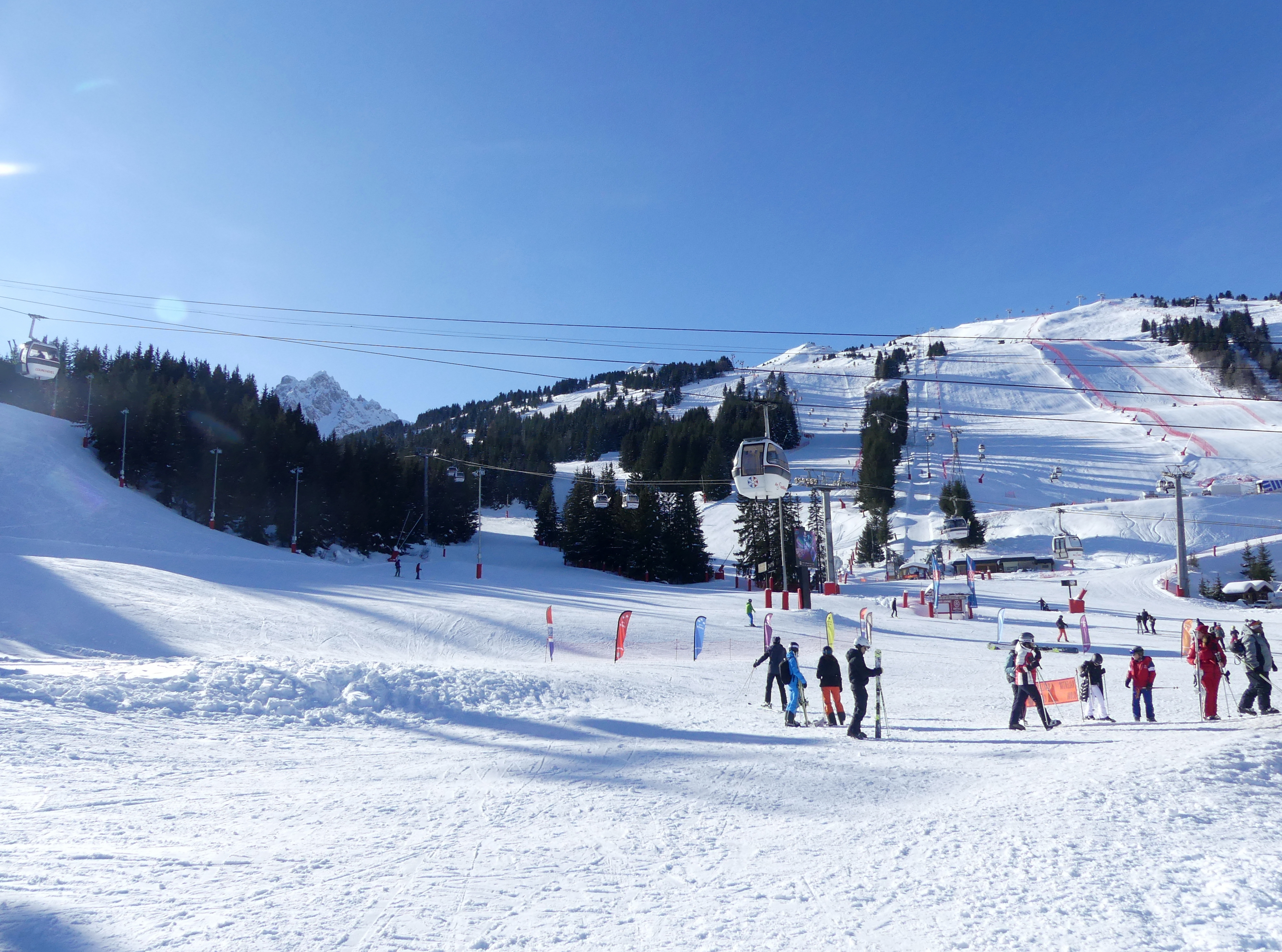 Sight of the snow front of Courchevel 1850 resort, in Savoie, France.